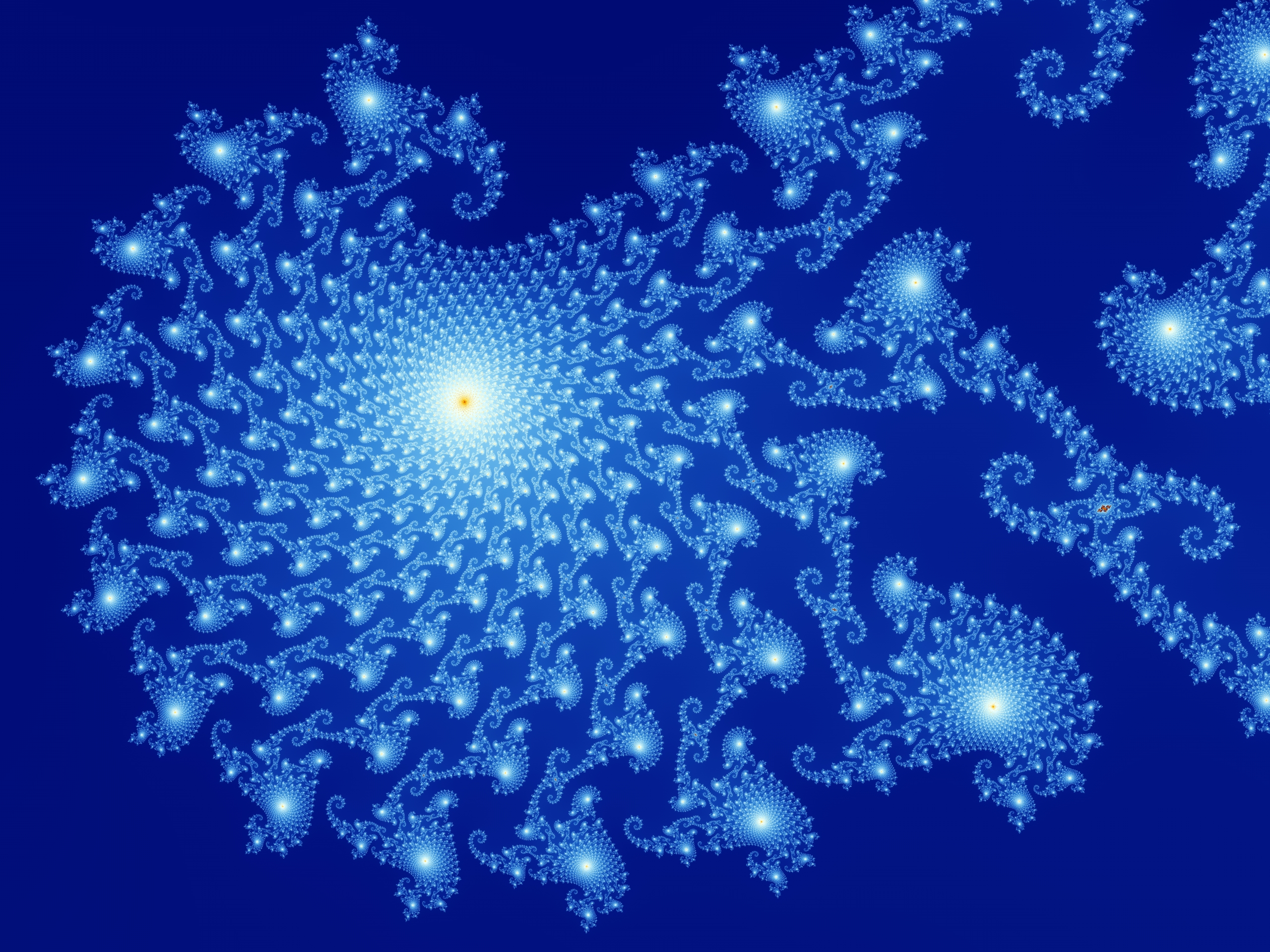 Partial view of the Mandelbrot set. Step 12 of a zoom sequence: In the outer part of the appendices islands of structures can be recognized. They have a shape like Julia sets Jc. The largest of them can be found in the center of the "double-hook" on the right side. Coordinates of the center: Re(c) = -.743,643,888,570,6, Im(c) = .131,825,904,312,4 Horizontal diameter of the image: .000,000,004,149,3 Magnification relative to the initial image: 741,550,000 Created by Wolfgang Beyer with the program Ultra Fractal 3. Uploaded by the creator.